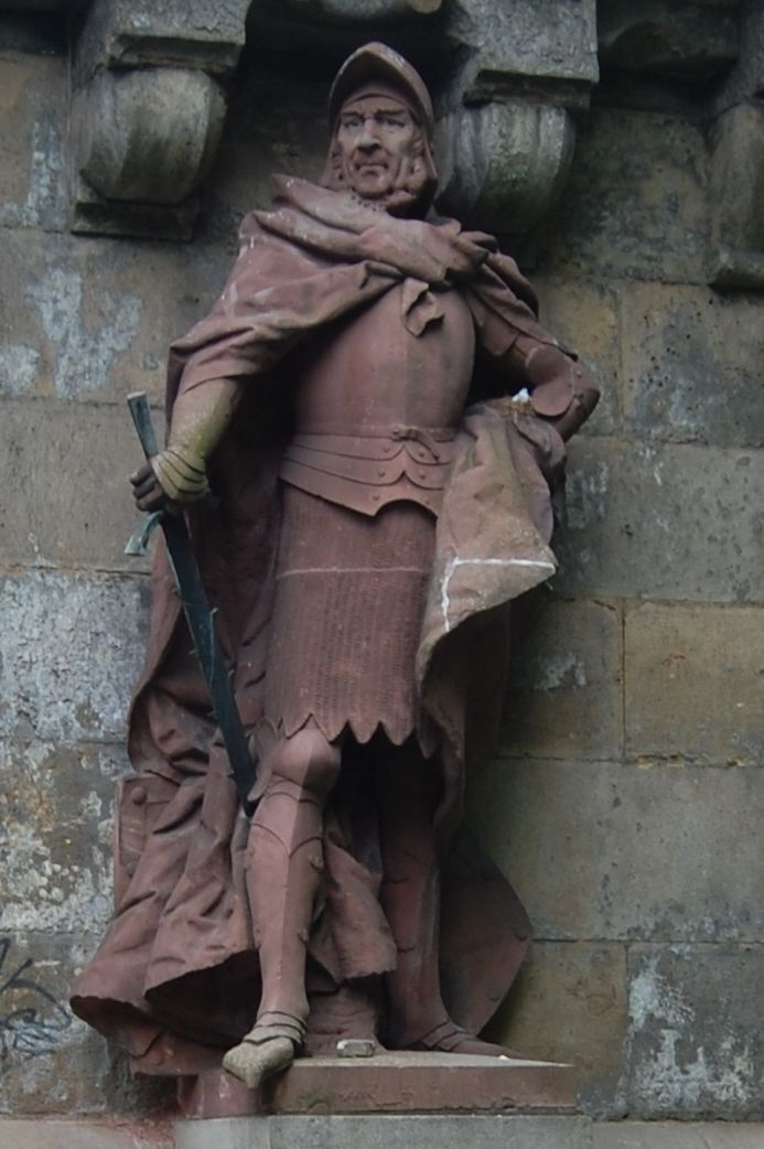 Statue of Simon of Utrecht on Kersten-Miles-Brücke (Kersten-Miles-Bridge) in Hamburg-Neustadt, Germany.